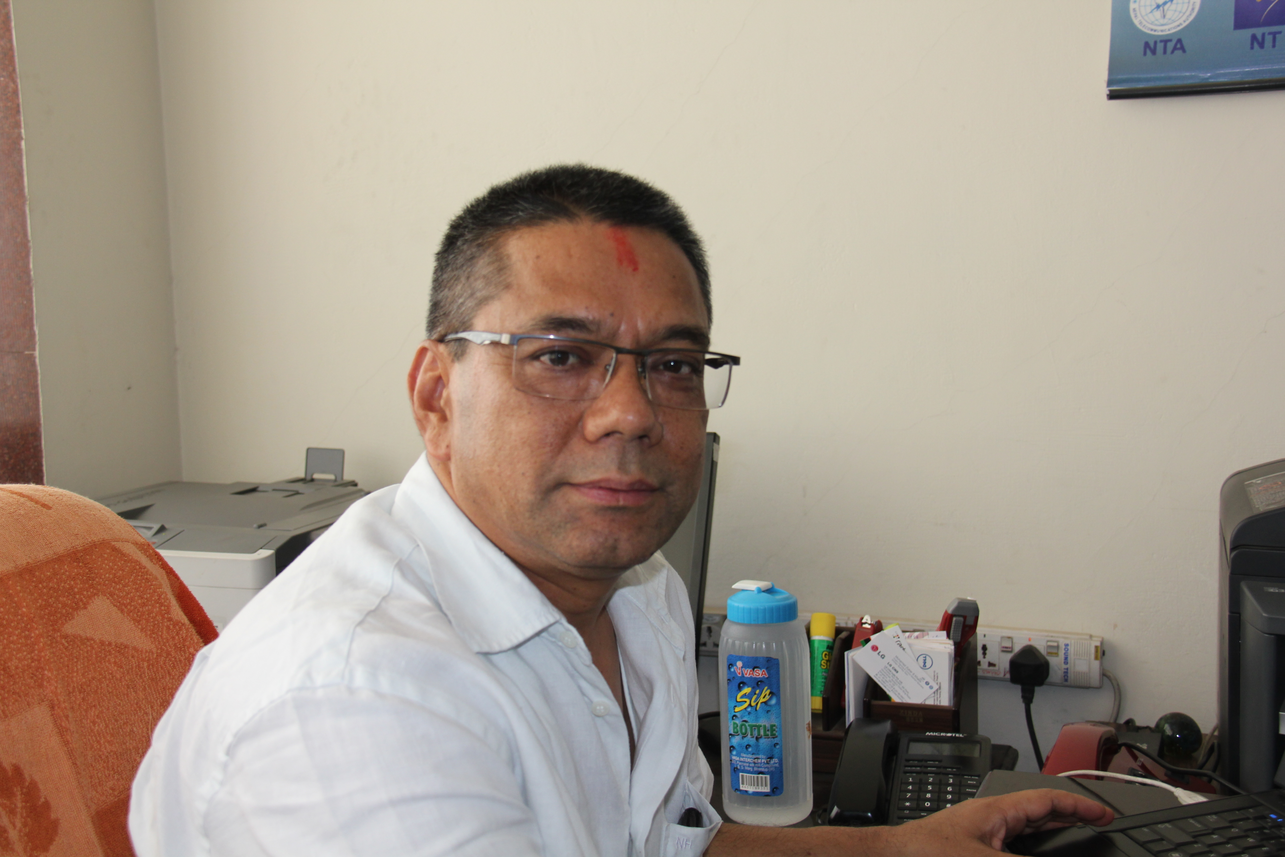 Lochan Lal Amatya